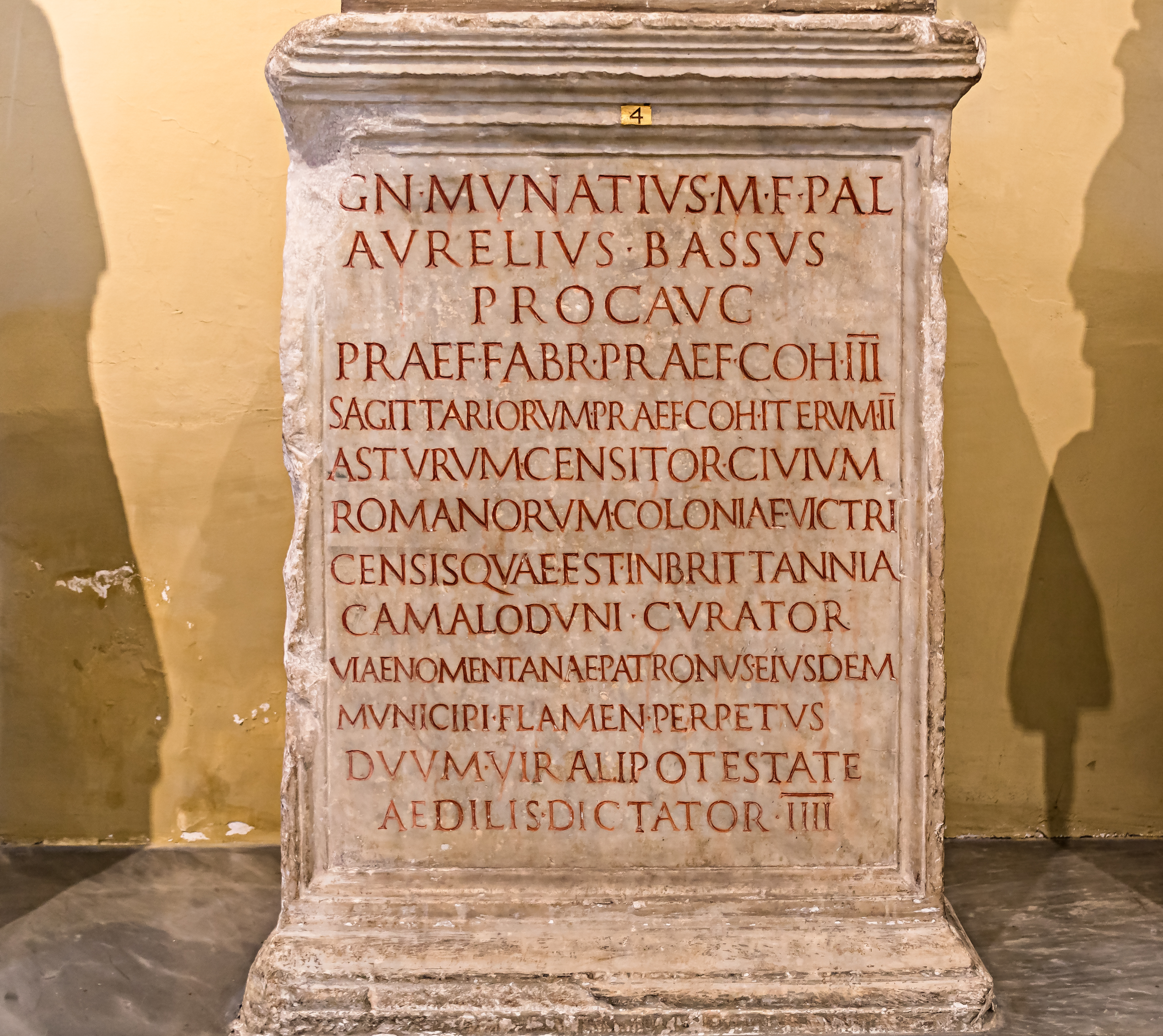 Monument with inscription of Gnaeus Munatius Aurelius Bassus in Rome. CIL XIV 3955: Gn(aeus !) Munatius M(arci) f(ilius) Pal(atina) / Aurelius Bassus / proc(urator) Aug(usti) / praef(ectus) fabr(um) praef(ectus) coh(ortis) III / sagittariorum praef(ectus) coh(ortis) iterum II / Asturum censitor civium / Romanorum coloniae Victri/censis quae est in Brit{t}annia / Camaloduni curator / viae Nomentanae patronus eiusdem / municipi(i) flamen perpetu(u)s / duumvirali potestate / aedilis dictator IIII